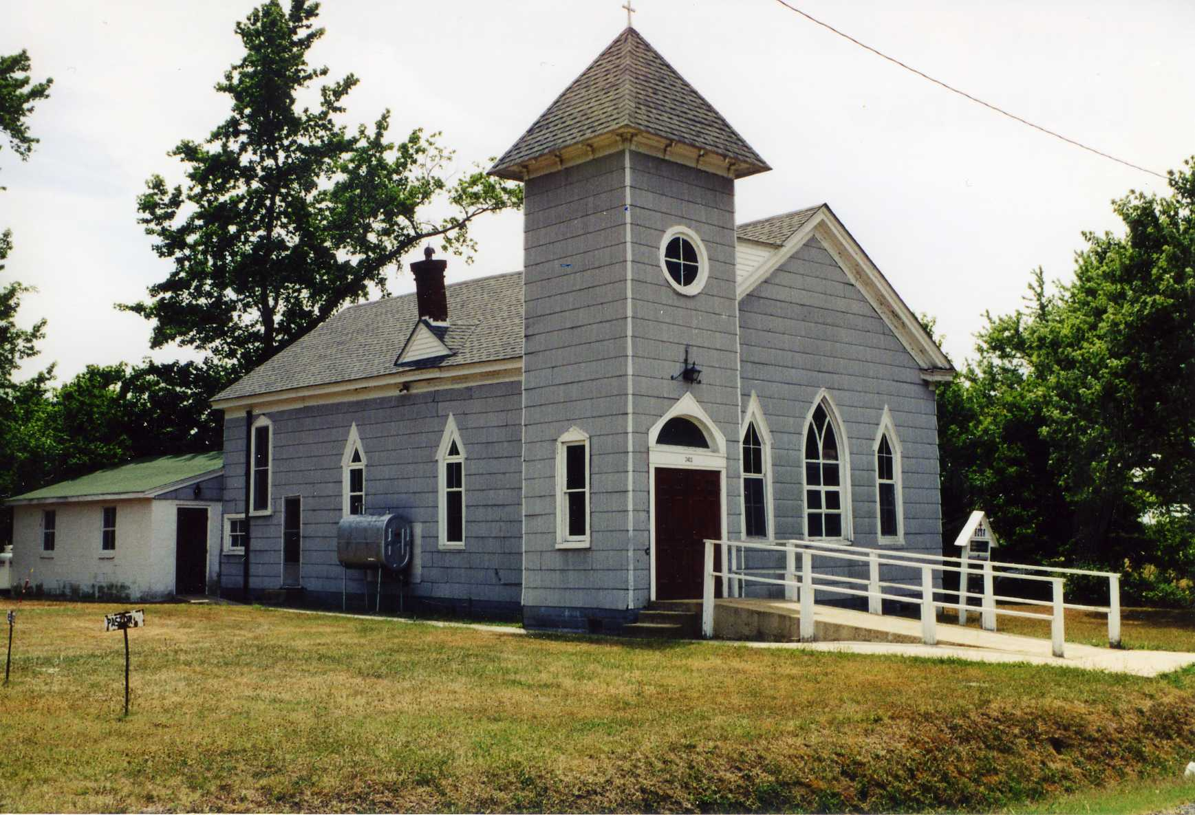 An image of the front of Christ Rock United Methodist Church. It was first built in 1875. This site was selected for a Heritage Fund Grant in 2011. Scanned from the Preservation Maryland physical photograph collection.